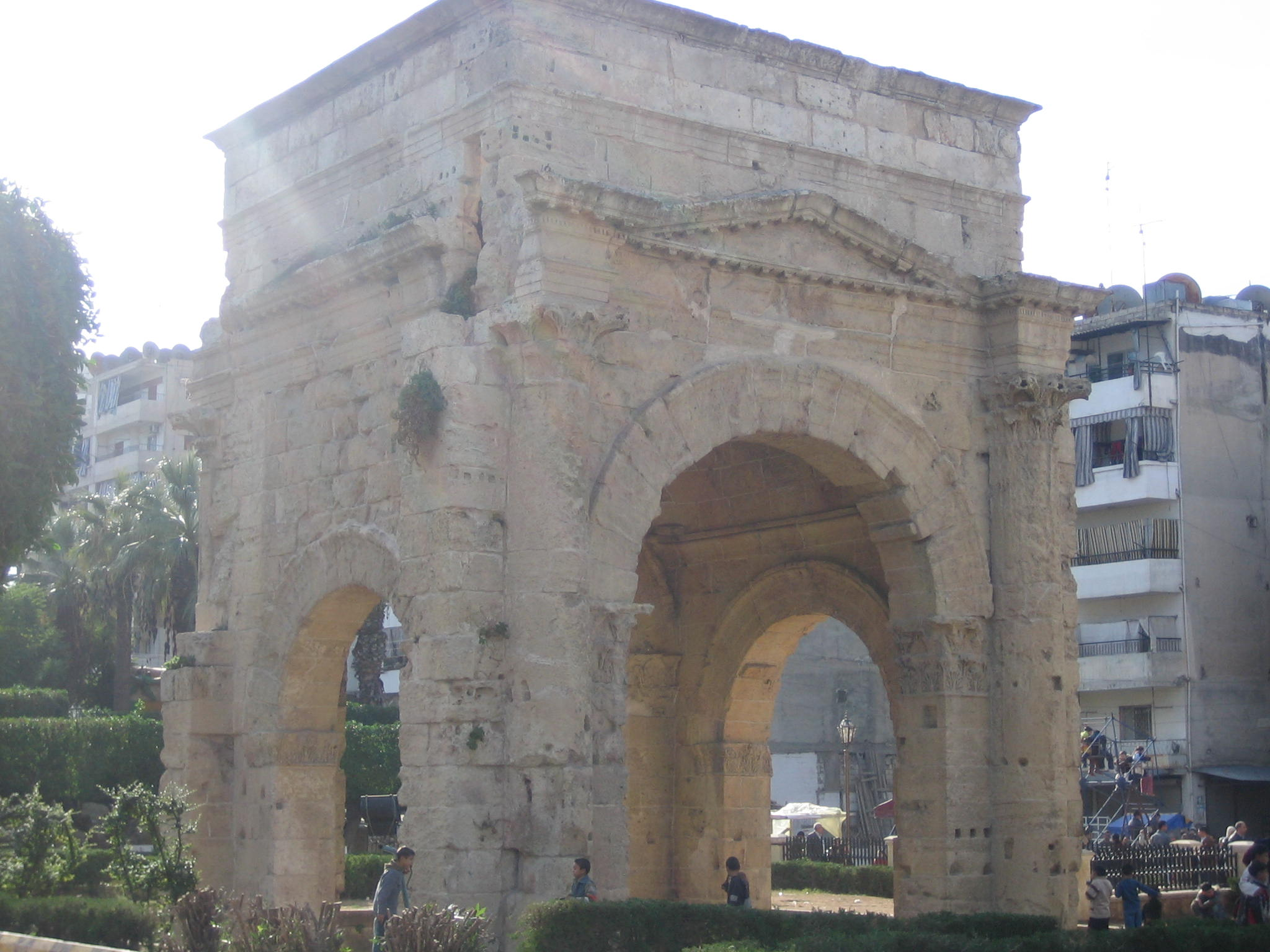 Ancient Roman Latakia Tetraporticus — a tetrapyla built by Septimius Severus in 183 CE. Located in the Saliba neighborhood of Latakia, northwestern Syria.